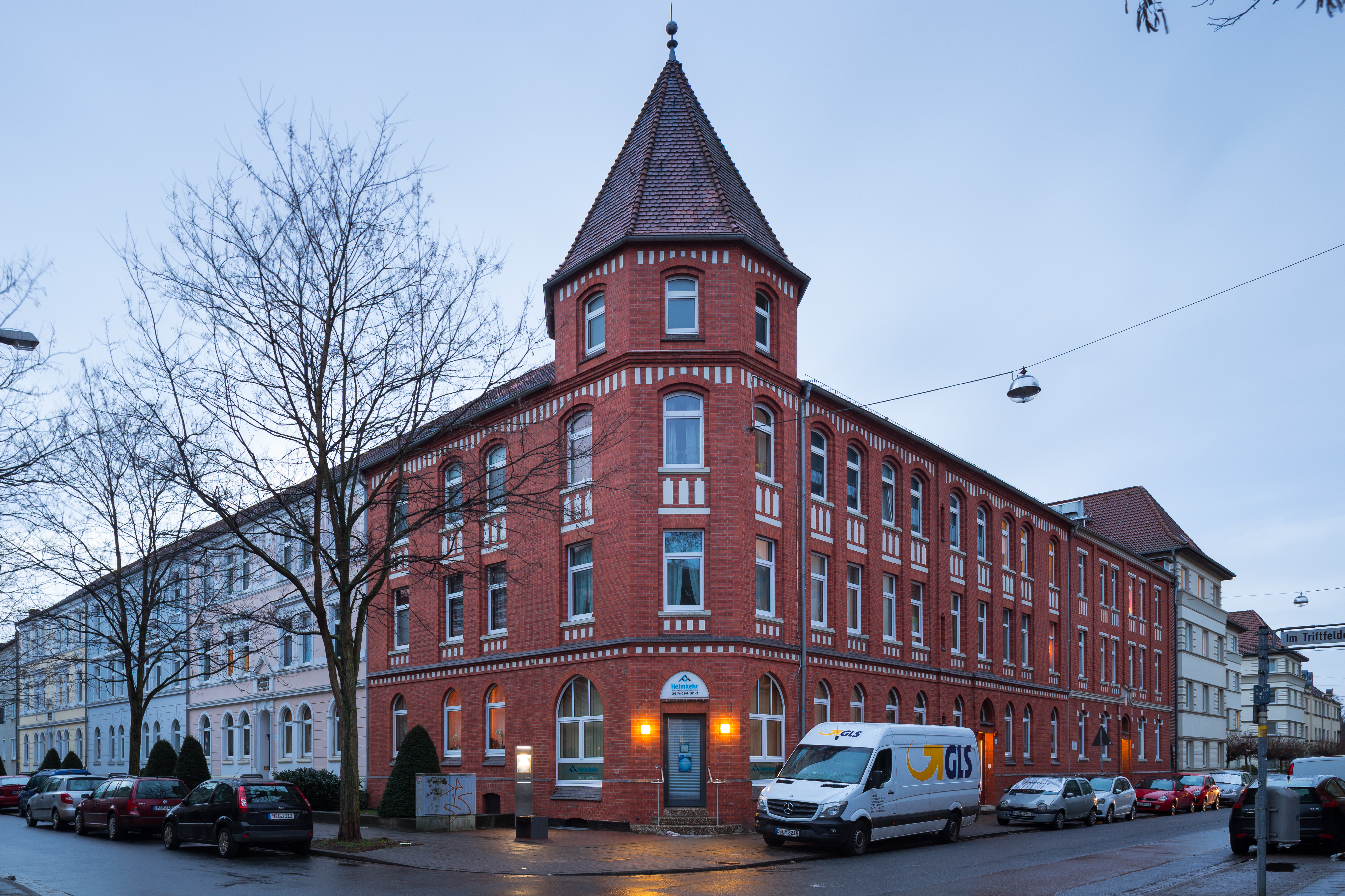 Apartment house located at Ahornstrasse no. 6 and Am Trittfelde in Mittelfeld quarter of Hannover, Germany.